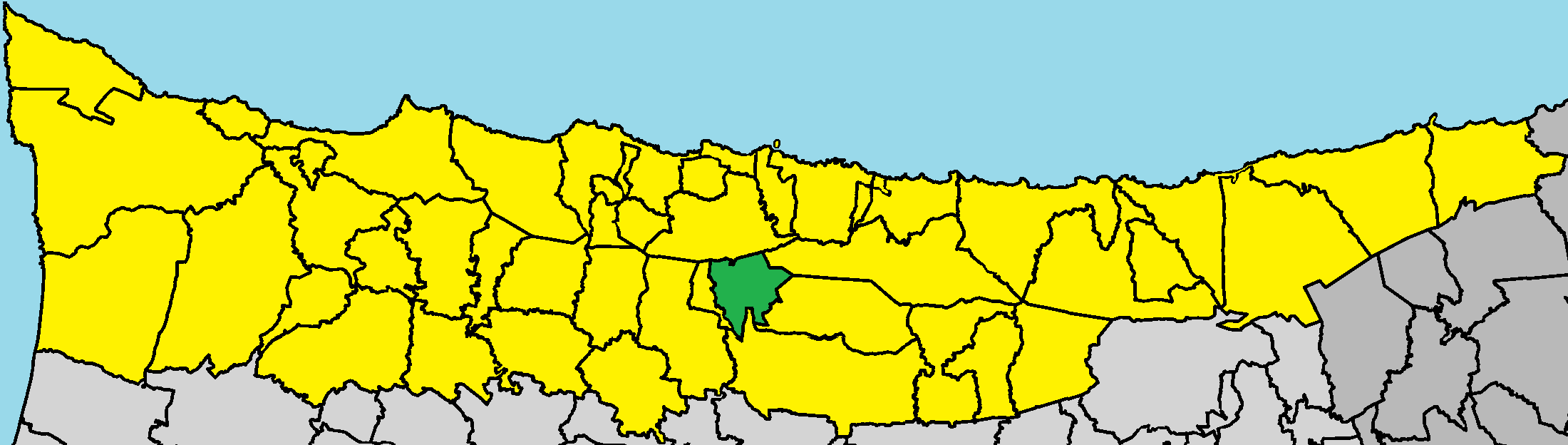 Agirda (Cyprus) in Kyrenia District (de jure).